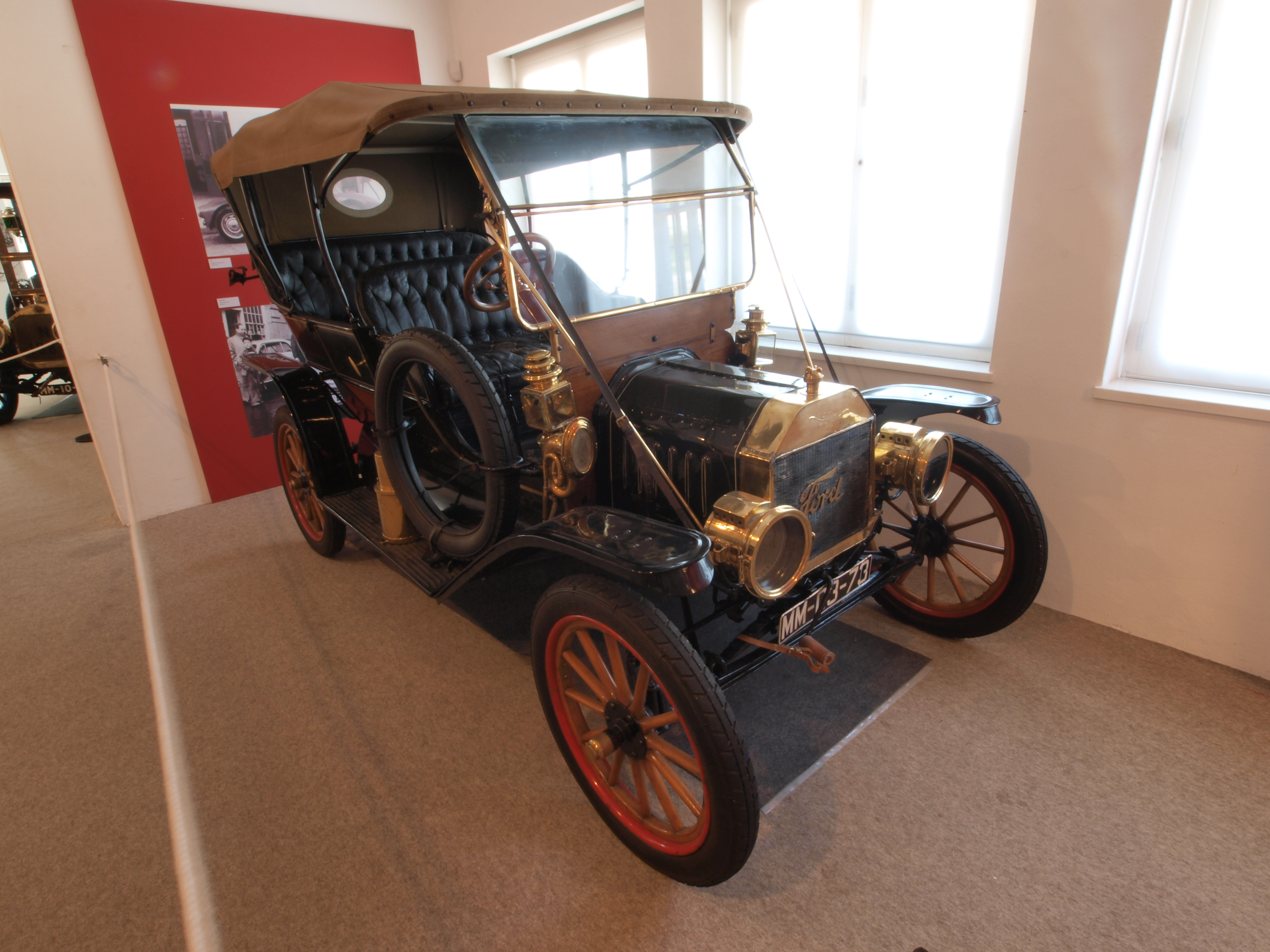 1909 Ford Model T Touring Car at the Museu do Caramulo in Caramulo, Portugal. (The ridges on the sides of the hood are nonstandard.)